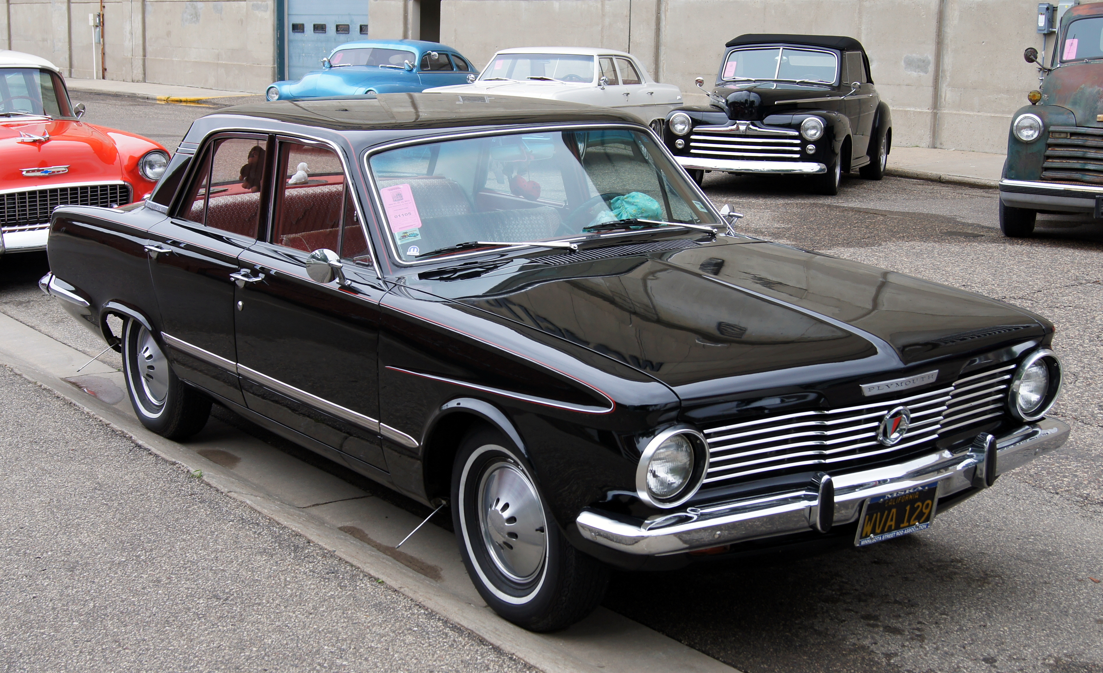 MSRA “BACK TO THE 50′s” 40th ANNIVERSARY June 21-23, 2013 State Fairgrounds St. Paul Minnesota More Car Pictures